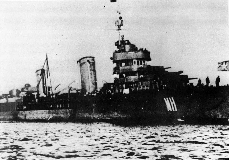 Side view of the destroyer leader Minsk